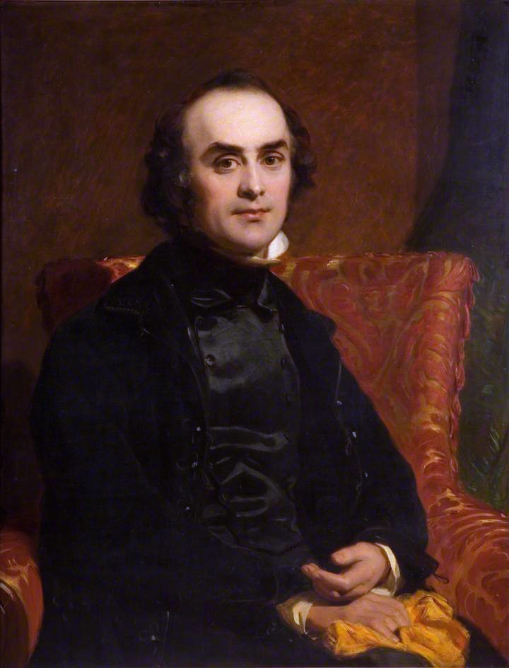 Self portrait oil on canvas 88.5 x 69 cm 1844–1845